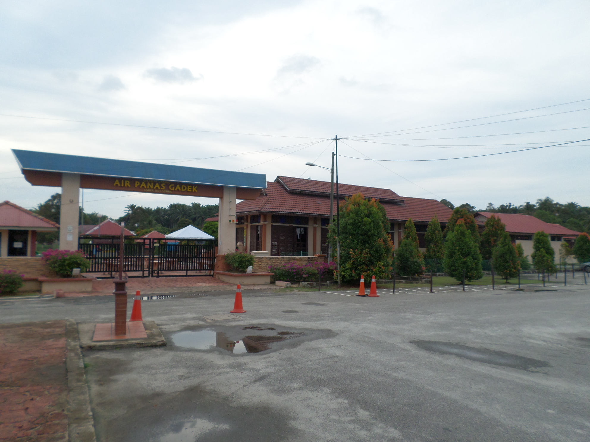 Gadek Hot Spring, Alor Gajah, Melaka, MalaysiaBahasa Melayu: Kolam Air Panas Gadek, Alor Gajah, Melaka, Malaysia